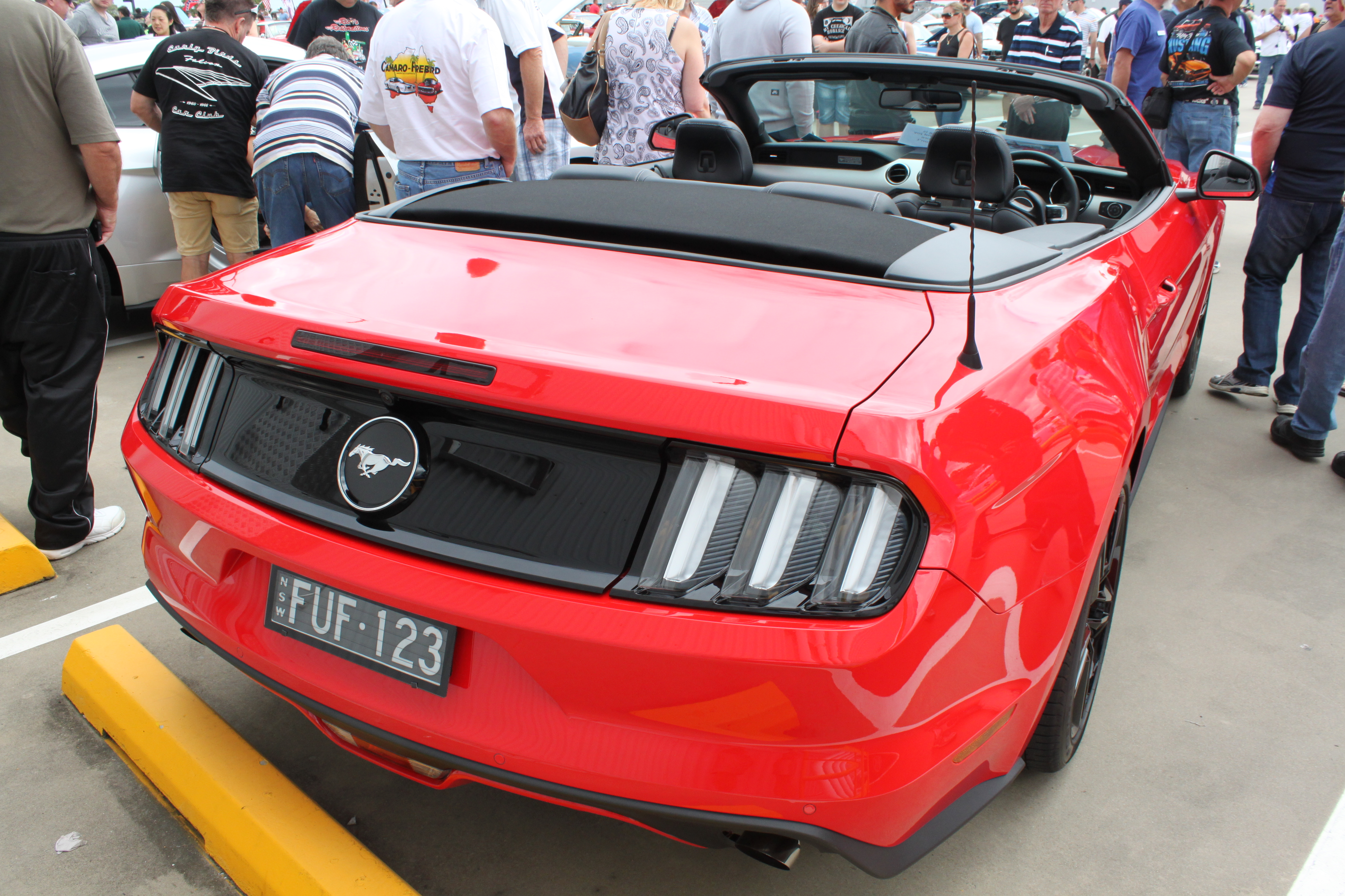 All American Car Show, Castle Hill, NSW January 2016